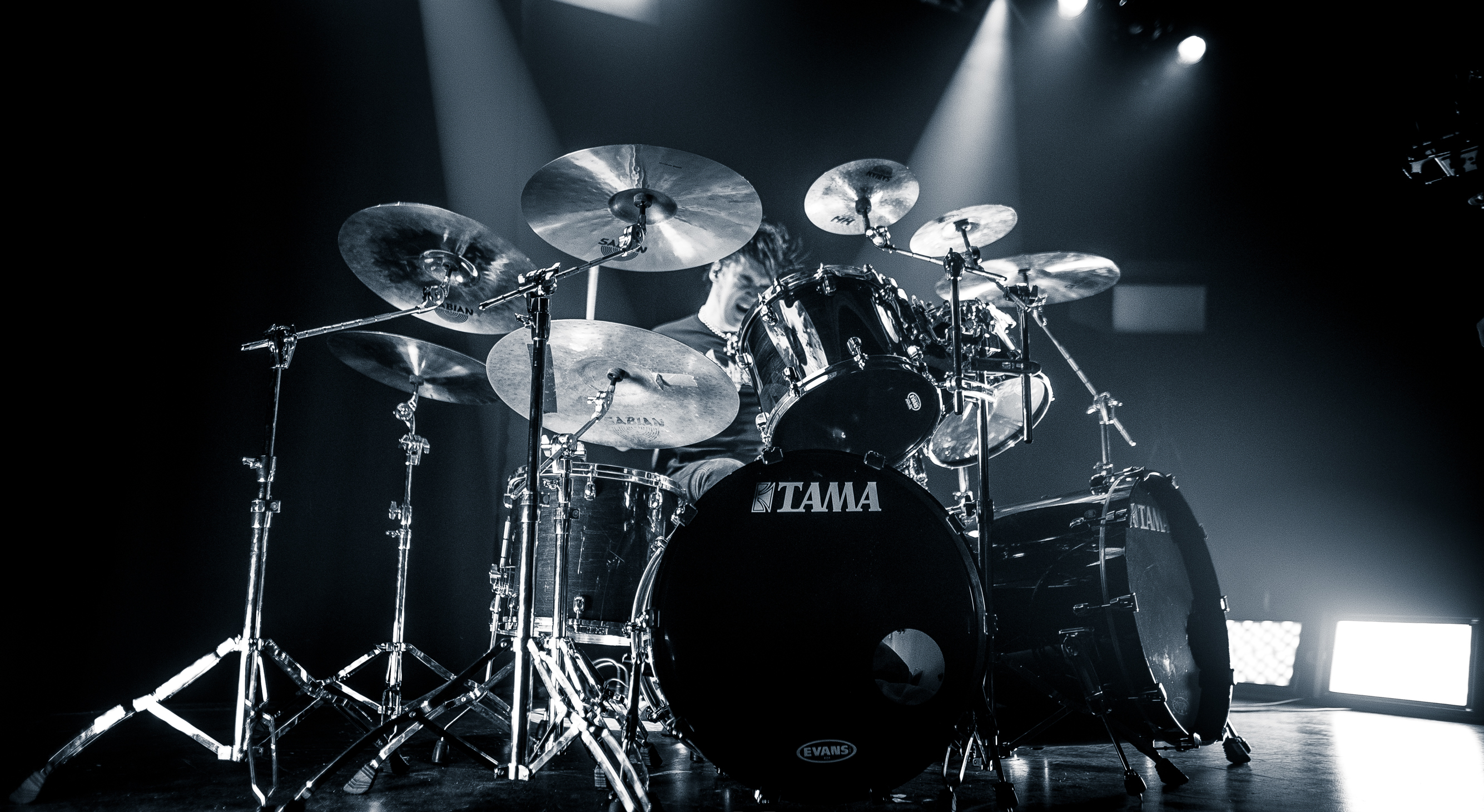 Musicvideo recording session for swedish metal band The Haunted